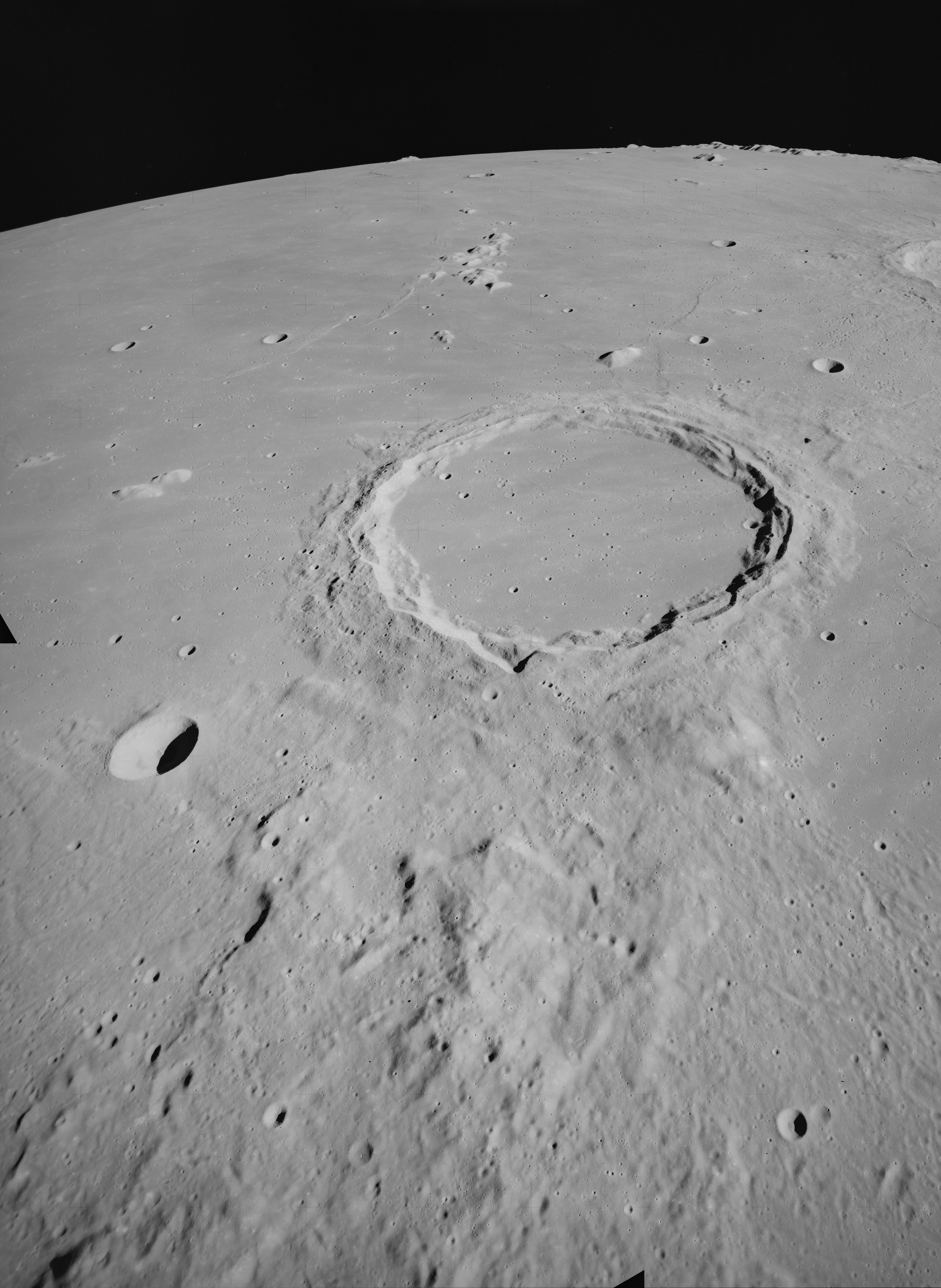 This is a view from the Apollo 15 looking northward. The large, flooded crater at center is Archimedes. To the south of the crater is the rugged terrain of the Montes Archimedes. The round crater near the left edge is Bancroft. Just visible to the upper right is part of Aristillus crater. The small range at top center is Montes Spitzbergen. The nearly flat plains along the left side are part of Mare Imbrium, while those to the east of Montes Spitzbergen are named Sinus Lunicus. This image was taken during the Apollo 15 mapping metric sequence, revolution 35. The original selenographic coordinates of the frame were 28.5° N, 3.5° W. The picture was produced by rotating the image 90° counter-clockwise so that north is toward the top edge, reducing it in size by 2/3, then cropping the blurred instrument covering the right edge.